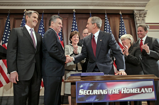 President Bush Signs SAFE Port Act President George W. Bush shakes hands with Congressman Peter King, R-N.Y., chairman of the Homeland Security Committee, after signing H.R. 4954, the SAFE Port Act, in the Dwight D. Eisenhower Executive Office Building Friday, Oct. 13, 2006. Also pictured from left are Sen. Bill Frist, R-Tenn.; Sen. Susan Collins, R-Maine; Sen. Robert Bennett, R-Utah; Sen. Patty Murray, D-Wash.; and Sen. Norm Coleman, R-Minn. White House photo by Paul Morse